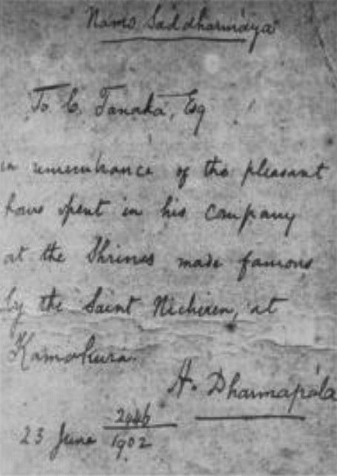 An English Letter Written By Srimath Anagarika Dharmapala in 23rd June 1902 to a Friend in Japan.